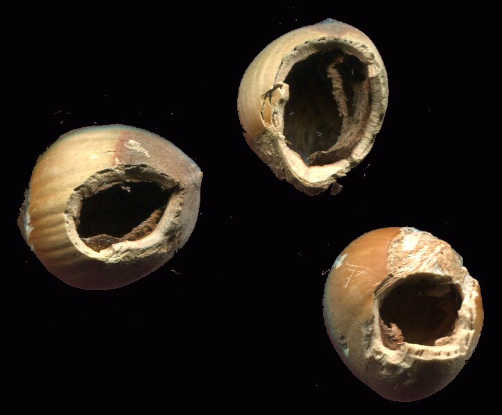 Hazelnuts gnawed by grey squirrel, Sciurus carolinensis. The curved cut marks left by the sharp incisors are visible around the holes.